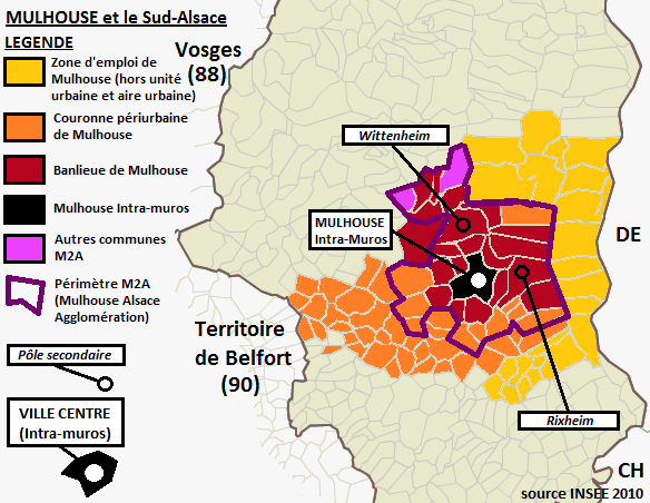 Mulhouse metropolitan area